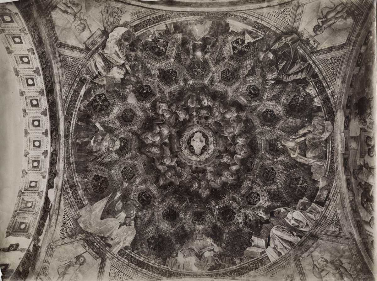 Frescos by Melozzo da Forlì and Marco Palmezzano, located in the Cappella Feo (completely destoryed after 1944 bombing) in the church of San Biagio (Forlì)